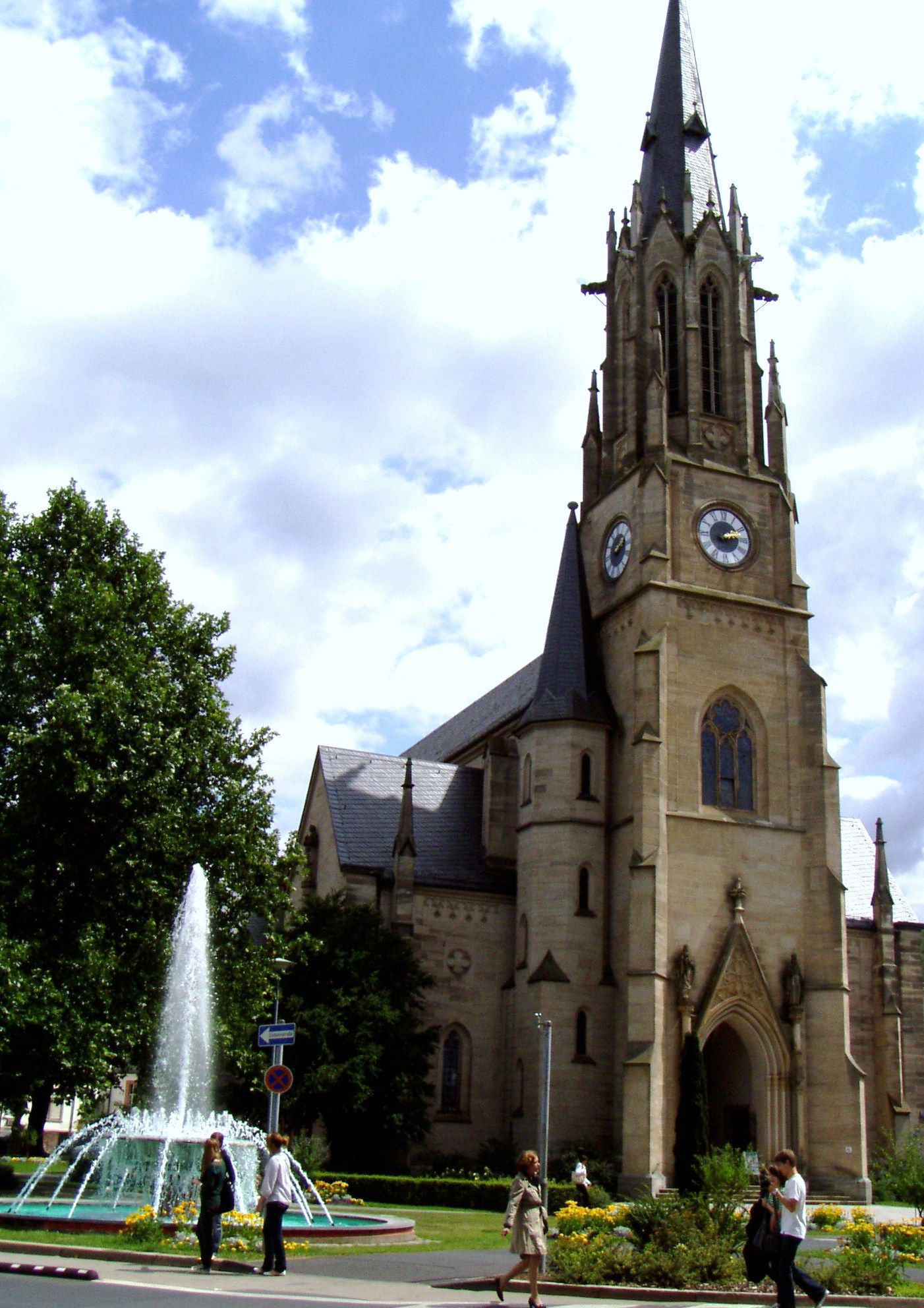 Herz-Jesu-Church in Bad Kissingen, Bavaria, Germany